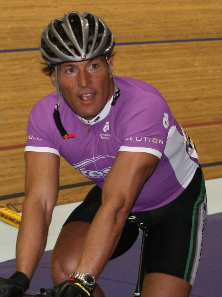 Roberto Chiappa at Revolution 25, Manchester Velodrome, UK.